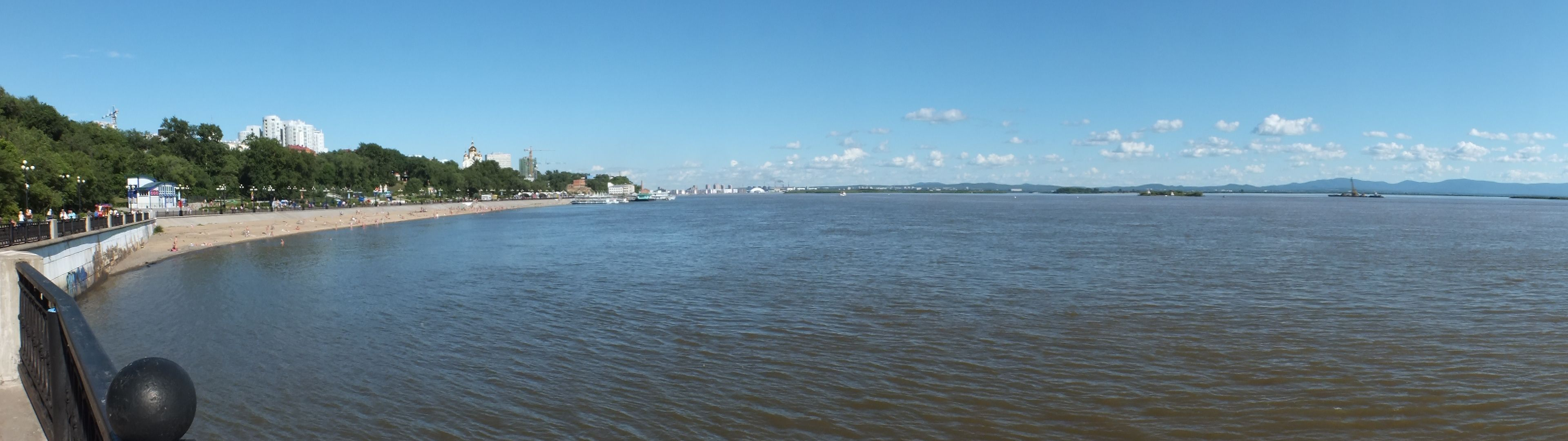 Amur River